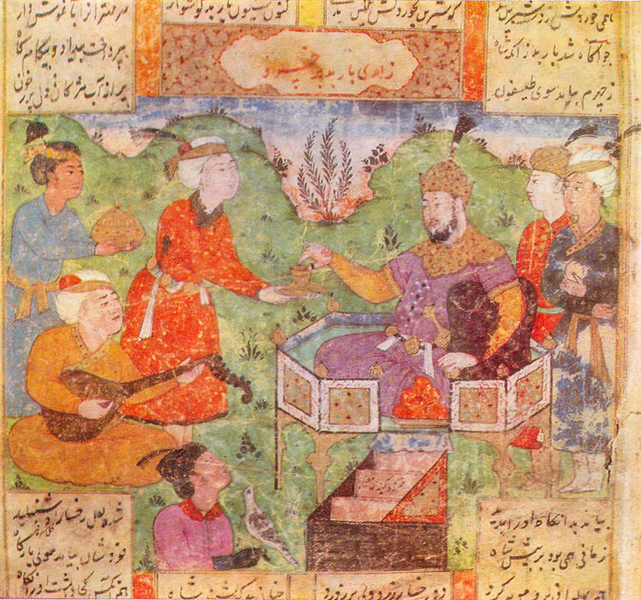 The musician Barbad plays for Khusrau Parviz. Illustration in manuscript of Ferdowsi's Shahnameh epic. MS IOS AS Uzbek SSR, 3463, Folio 508, recto. Bukhara